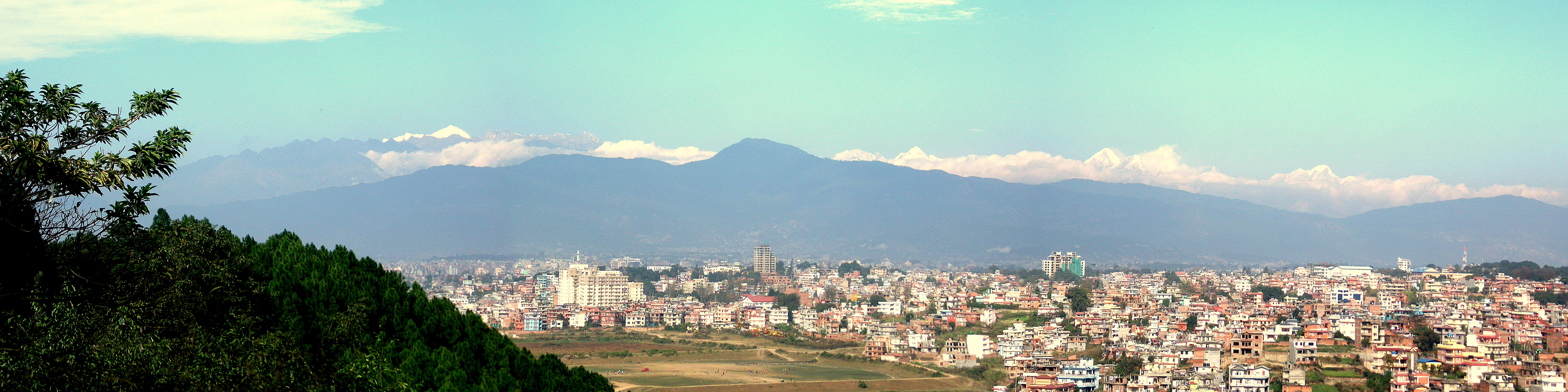 Kathmandu from a nearby hill